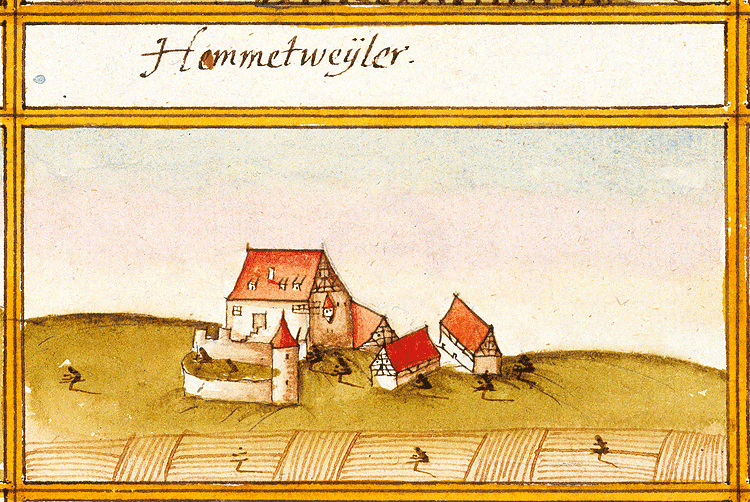 View of Hammetweil, Neckartenzlingen, from the forest register books created by Andreas Kieser